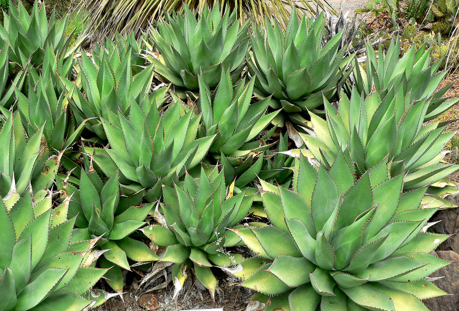 Photo of Agave shawii at Regional Parks Botanic Garden